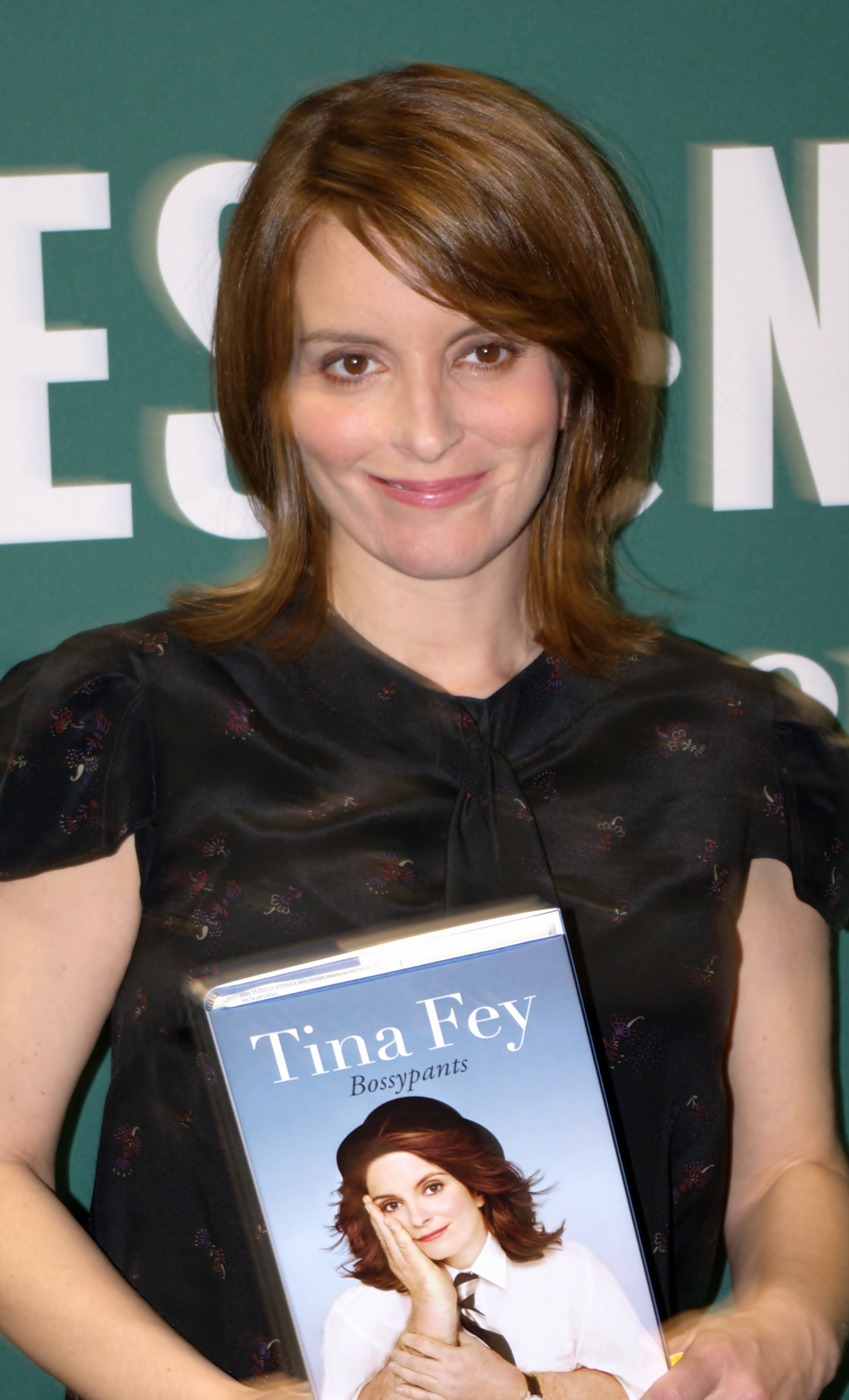 Tina Fey at the Union Square (which?) Barnes & Noble for the release of her book Bossypants.